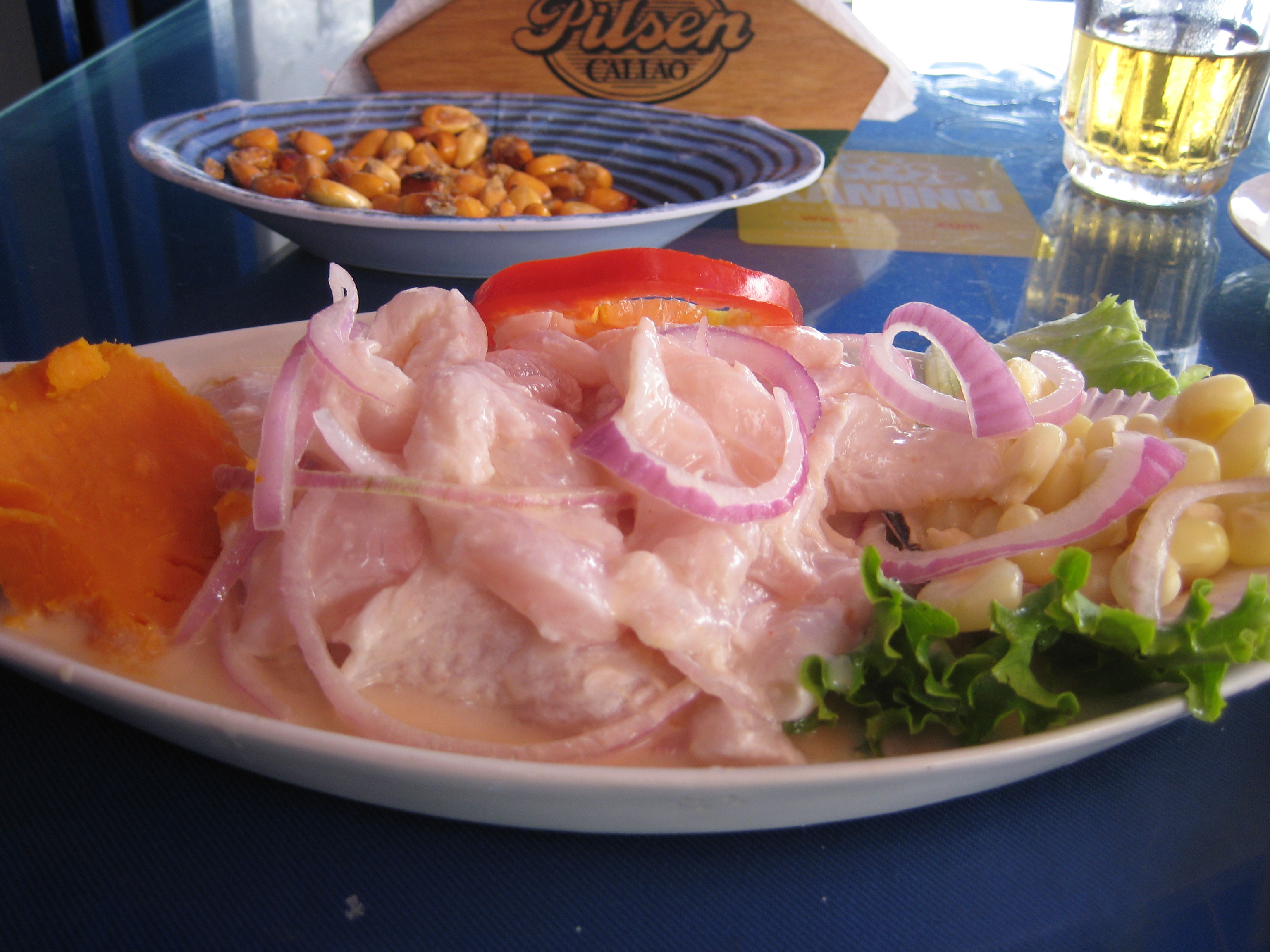 Ceviche.